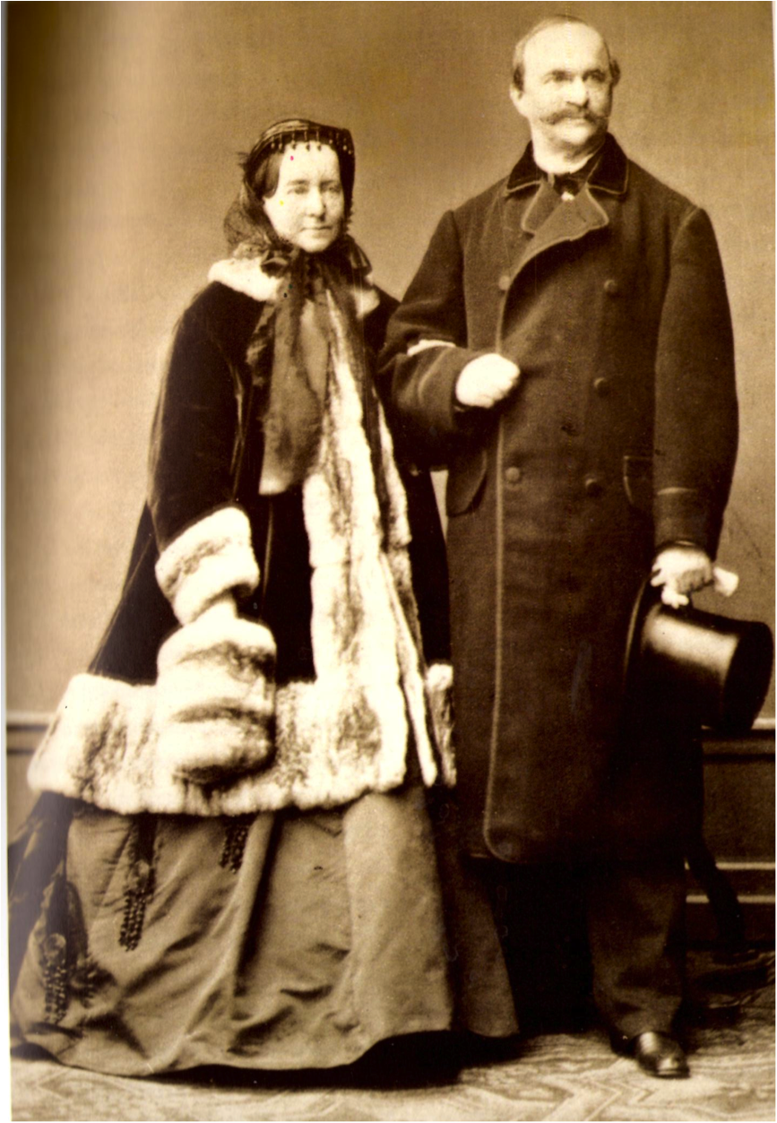 King Otto and Queen Amalia of Greece in a picture taken in 1867